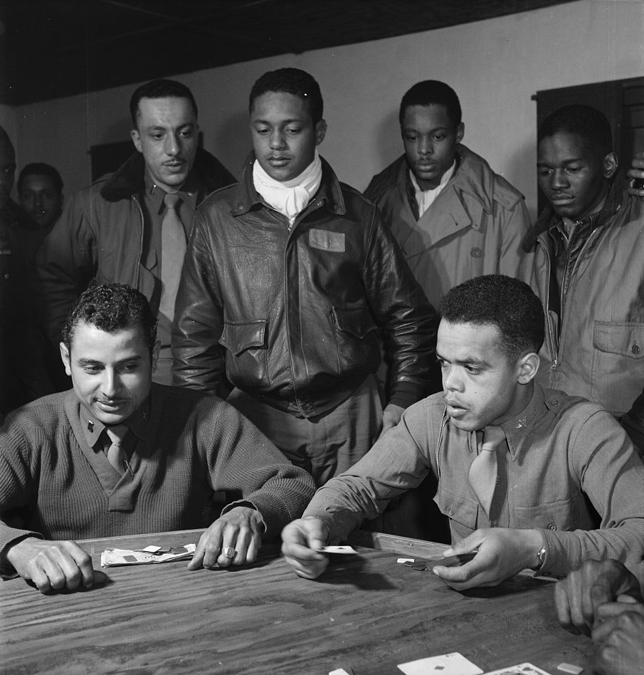 Photograph shows Tuskegee airmen playing cards. Seated, left to right: Robert "Bobby" Spurlock, Washington, DC; Harold M. Morris, Seattle, WA, Class 44-D. Standing, left to right: Conrad A. Johnson, New York, NY, Class 44-G; Ronald W. Reeves, Washington, DC, Class 44-G; Leroy Roberts, Jr., Toccoa, GA, Class 44-E; Calvin J. Spann, Rutherford, NJ, Class 44-G. Ramitelli, Italy, March 1945. (Source: Tuskegee Airmen 332nd Fighter Group pilots.)